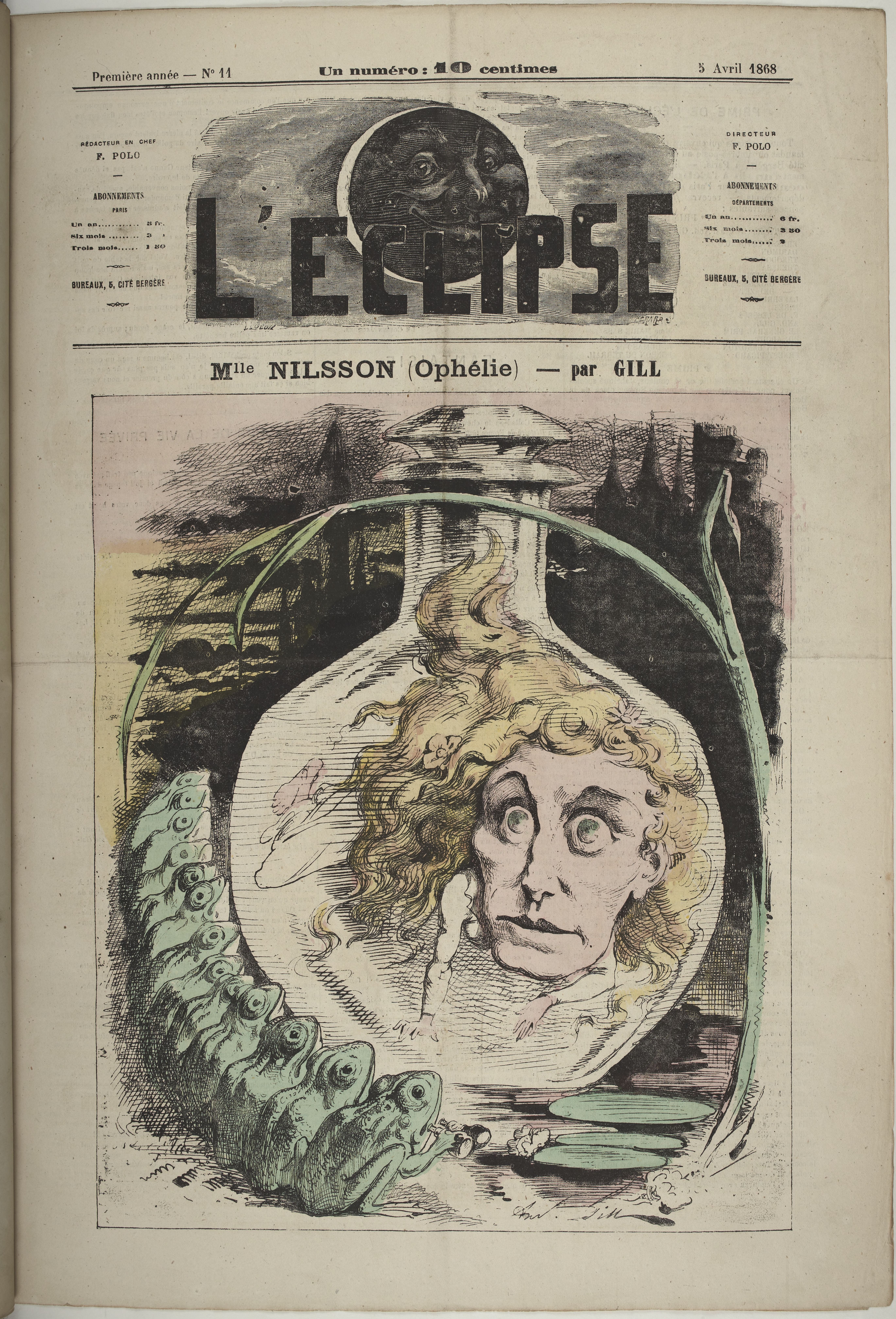 Caricature of Christina Nilsson as Ophelia Cover of L'Eclipse 5 April 1868 Hand-colored Engraving 12"w x 18"h